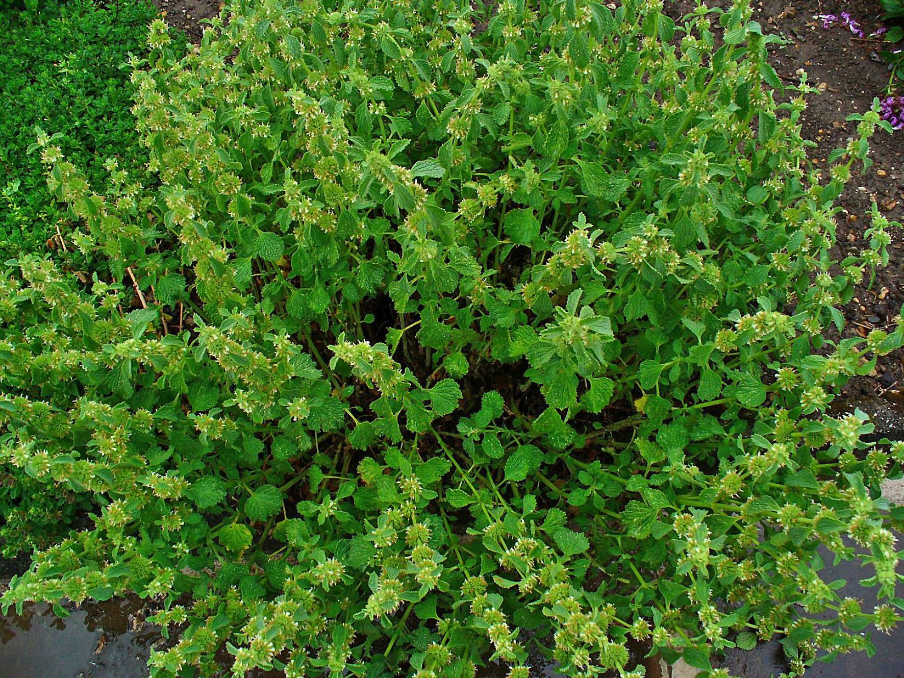 Marrubium vulgare, Lamiaceae, White Horehound, Common Horehound, habitus; Botanical Garden KIT, Karlsruhe, Germany.